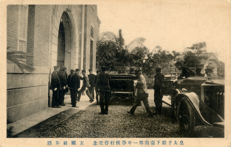 No 1 Middle School Tainan and Hirohito